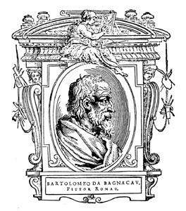 Illustratio from "Le Vite" by Giorgio Vasari, edition of 1568. For the artist portrayed see filename